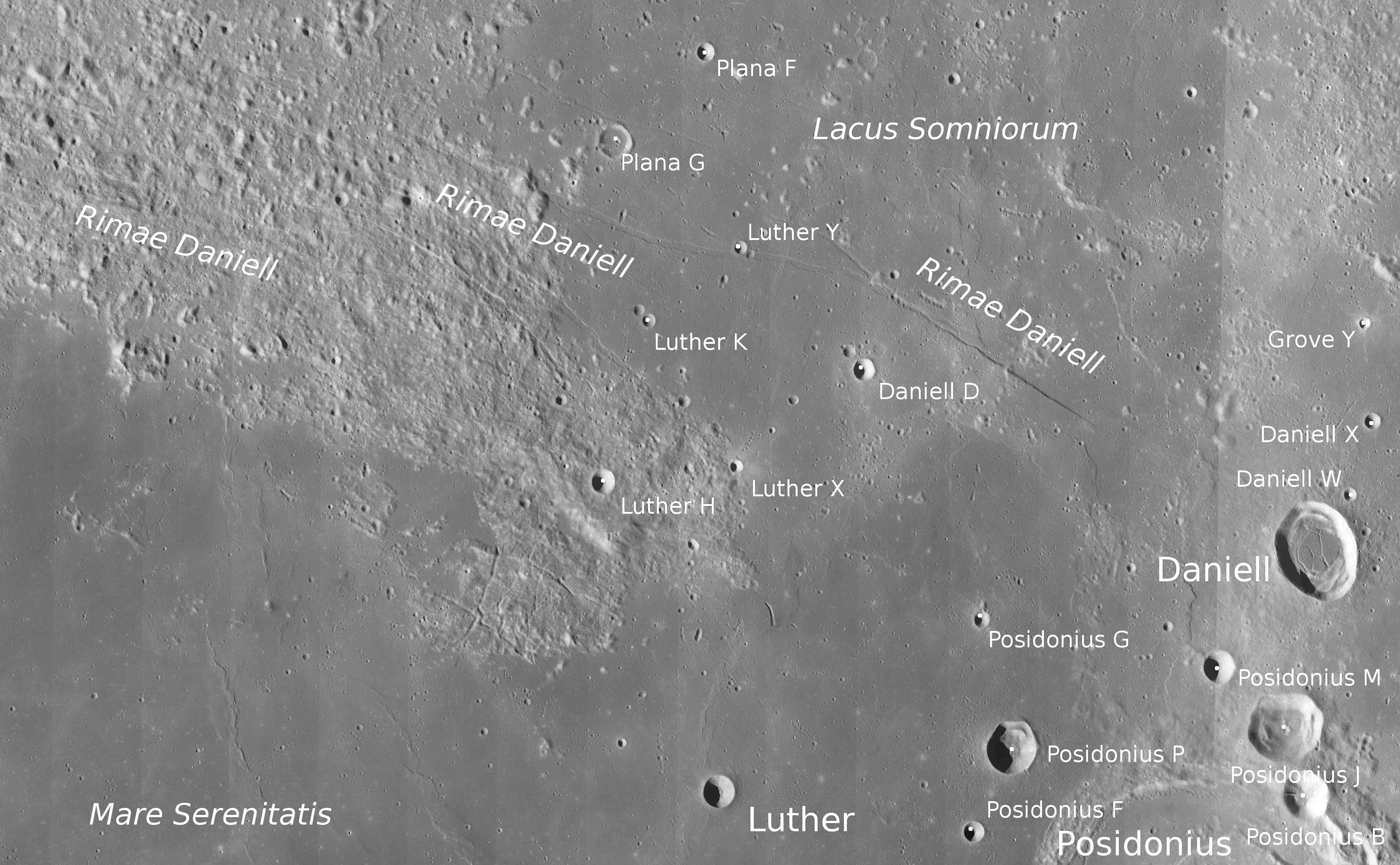 Rimae Daniell with craters Luther and Daniell (detail of LRO - WAC global moon mosaic; Mercator projection)